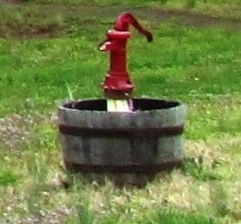 Mineral spring pump at the Donoho Hotel in Red Boiling Springs, Tennessee, USa. These pumps were once used throughout Red Boiling Springs to access the resort's highly-mineralized springs, the waters of which were believed to have curative effects.